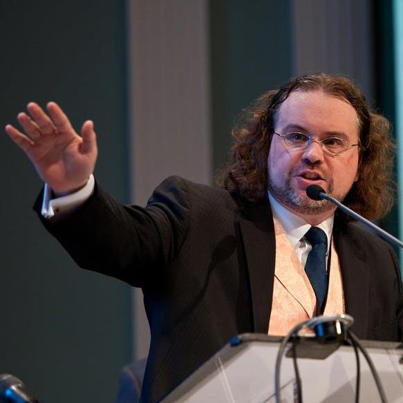 This photo was taken by me on November 2, 2012.